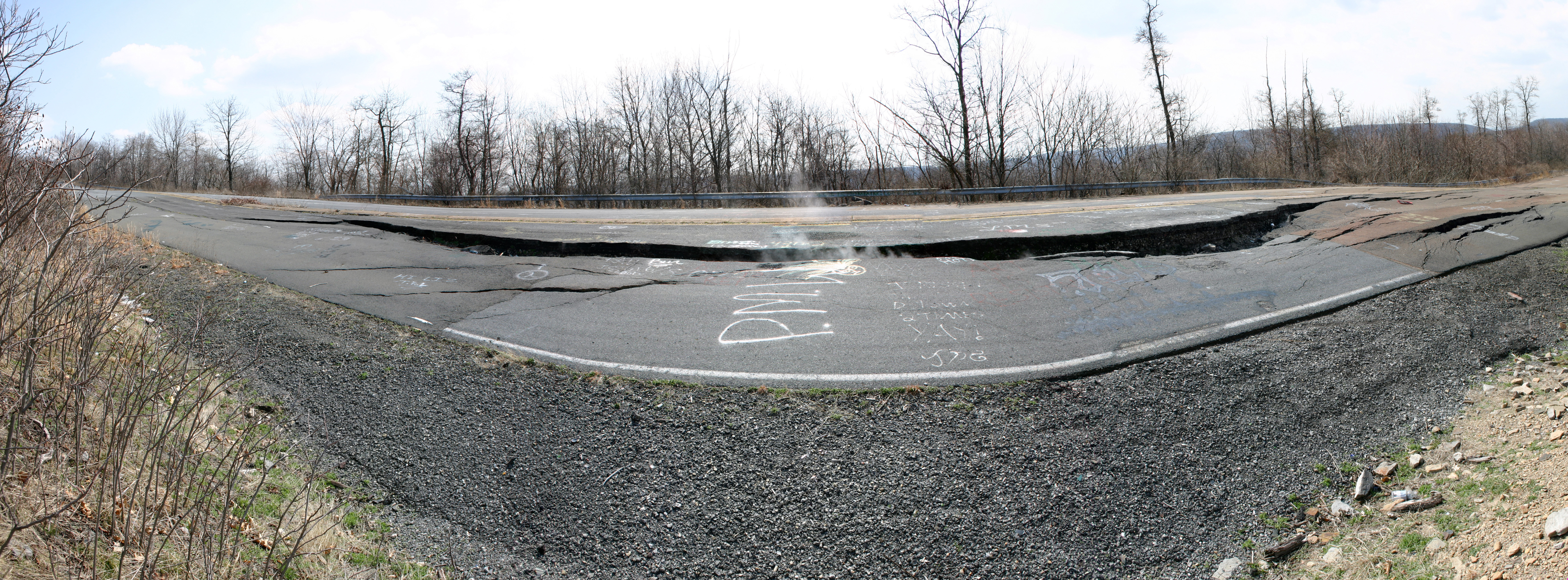 Panoramic view of Route 61 through Centralia, PA